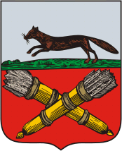 Belebei (Bashkortostan), coat of arms (1782)